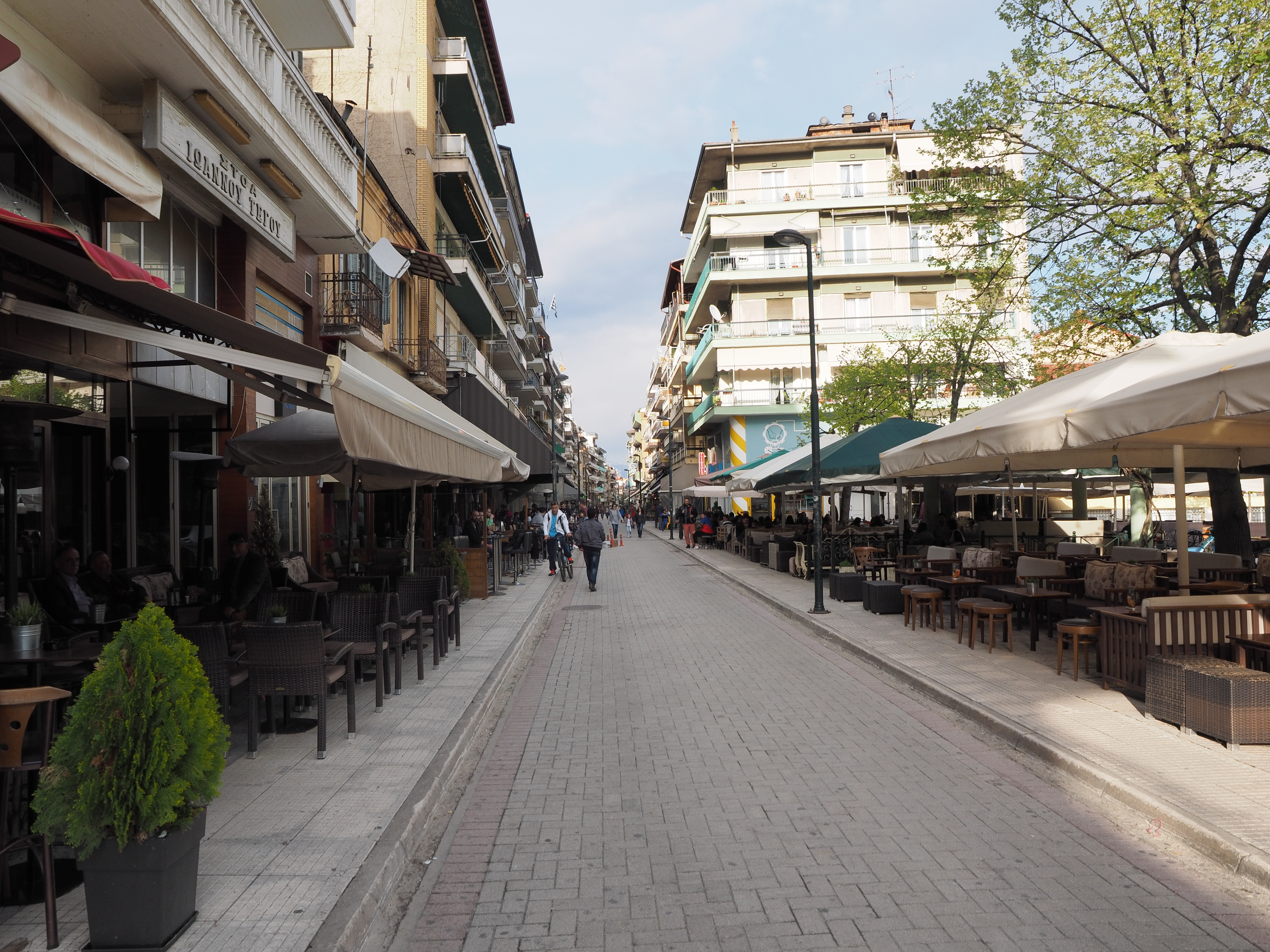 Florina Korzo (main walking street), Greece Српски (ћирилица): Корзо у Лерину, Грчка